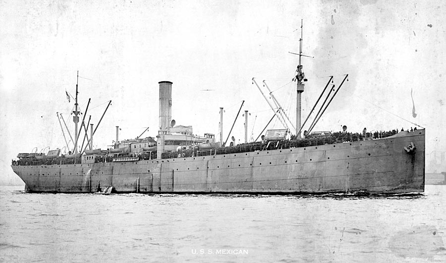 US Navy troop transport USS Mexican (ID-1655) arriving at New York City with her decks crowded with troops returning from service in Europe during World War I.